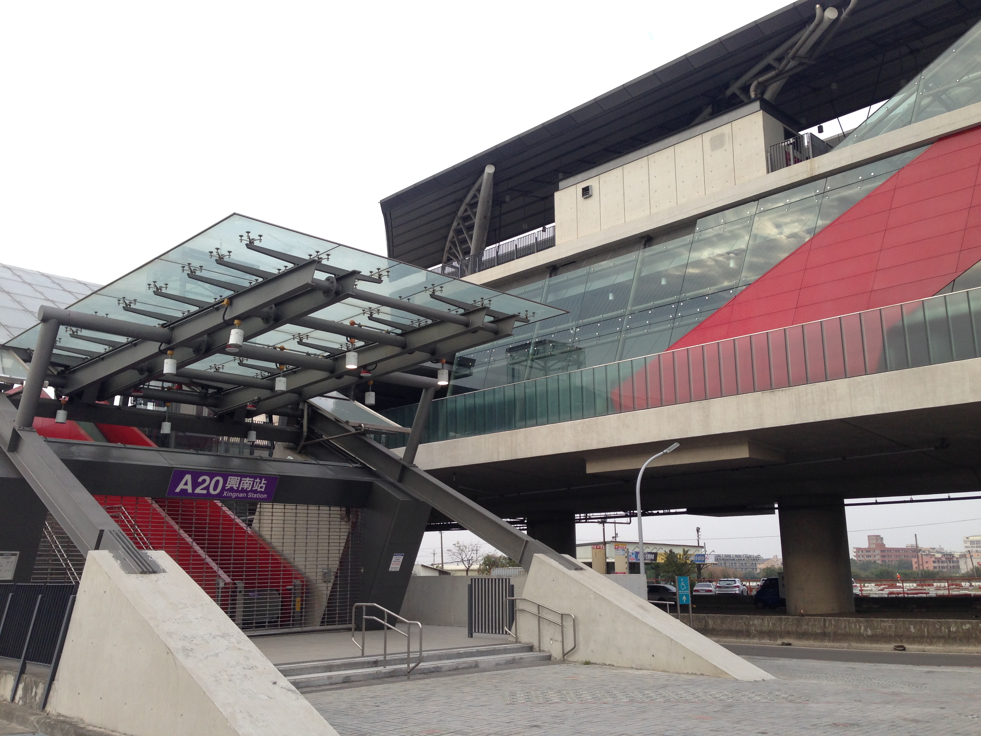 Xingnan Station, Taoyuan International Airport MRT